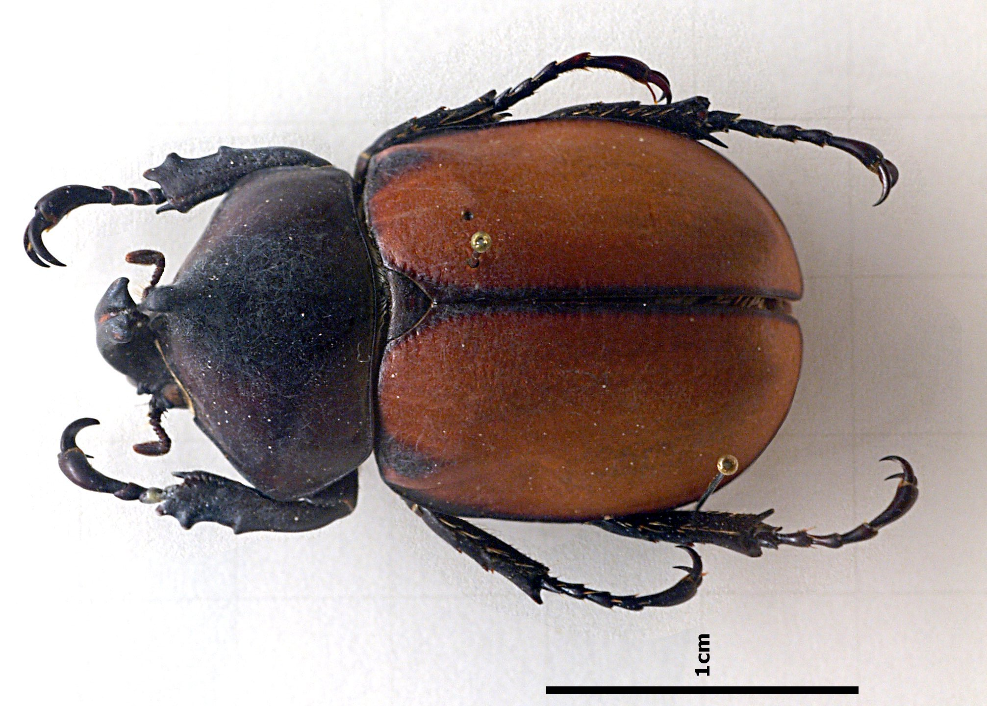 Mitracephala humboldti (Scarabaeidae), mounted specimen from Ecuador.